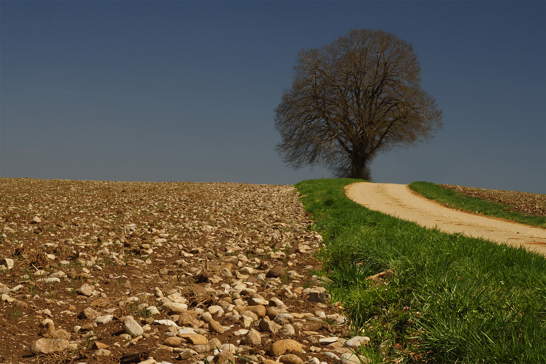 Farmland of Riedöschingen, a village northeast of Blumberg West-Swabian Alb. The environment is covered by cobbles of Miocene “Jüngere Juranagelfluh”, which are a fluvial sediment. The cobbles came from the north (Black Forest, northern foreland and Swabian Alb), the sedimentation is associated with the alpine “Obere Süßwassermolasse” (Upper Freshwater Molasse). These deposits came in such tremendous quantities, they produced three giant “runnels” (the dominant being the “Tengen runnel”) and pored their waters and sediments up to 350 m high and across the surface of approx. 30 km. Farming land is covered with it even today. See also the photo Image:Juranagelfluh_Obermiozaen_Hondingen_Tengener-Rinne_Schwaebische-Alb.jpg. These miocene runnels pored their water into the “Graupensandrinne”, forming huge alluvial fans.